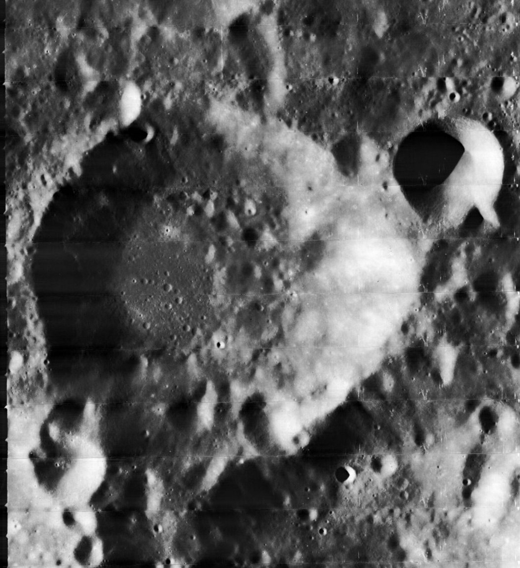 Armiński (crater), on the moon.